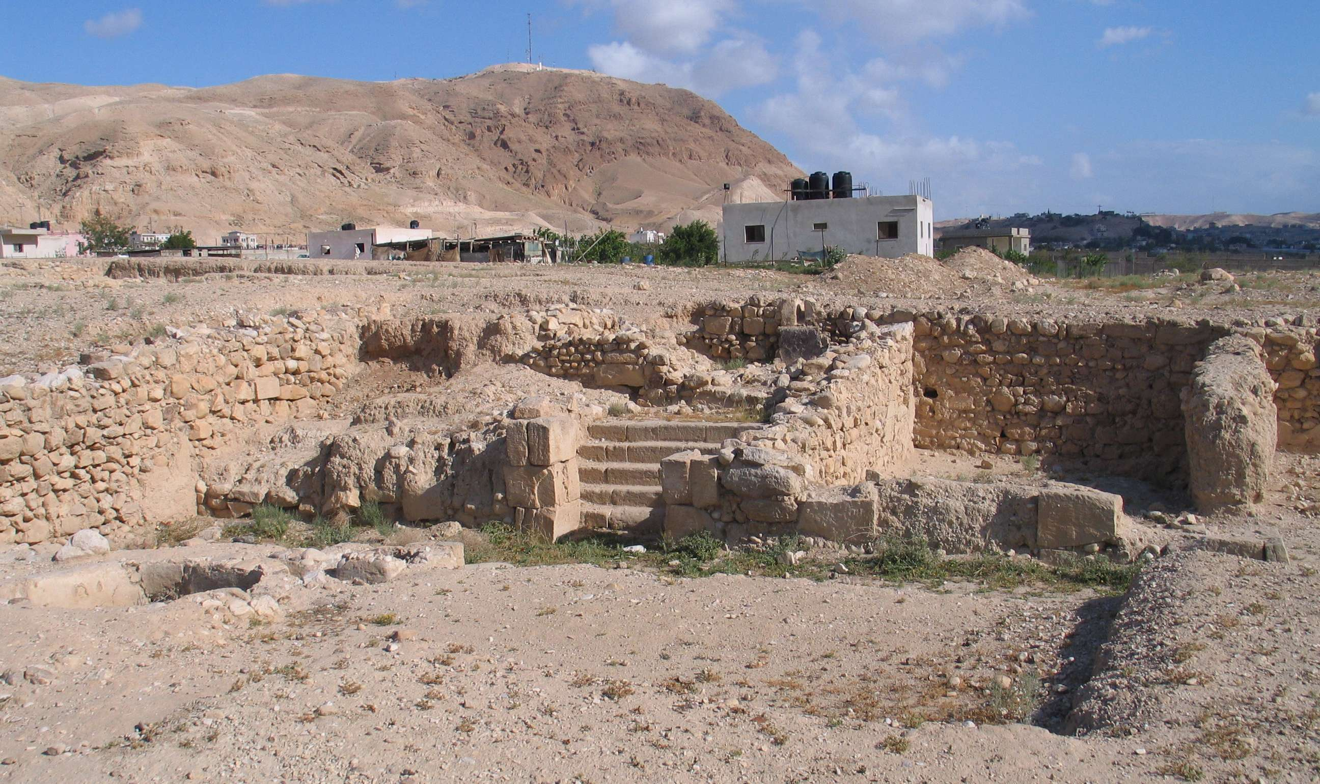 Hasmonean-Herodian palaces (Tulul Abu al-Alaiq) over Wadi Kelt, southwest of Jericho.